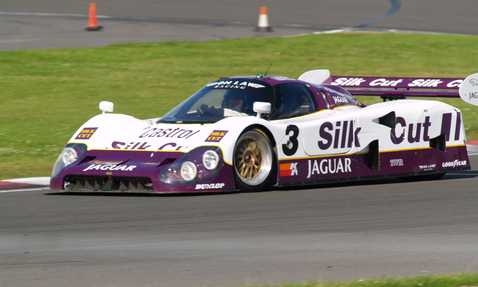 A Jaguar XJR-12 at the Silverstone Classic